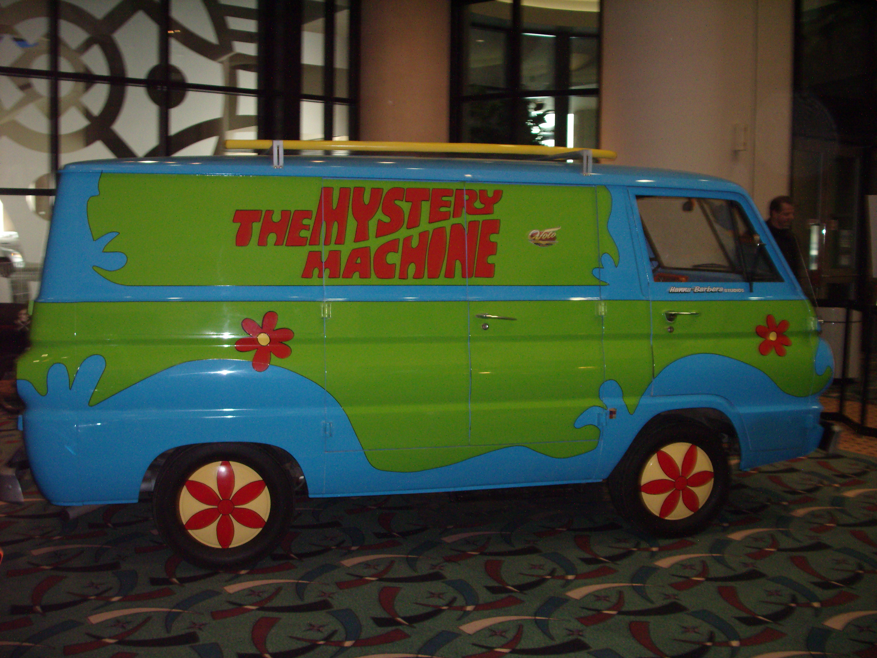 This is a photograph of the Mystery Machine at the 2011 Greater Milwaukee Auto Show.